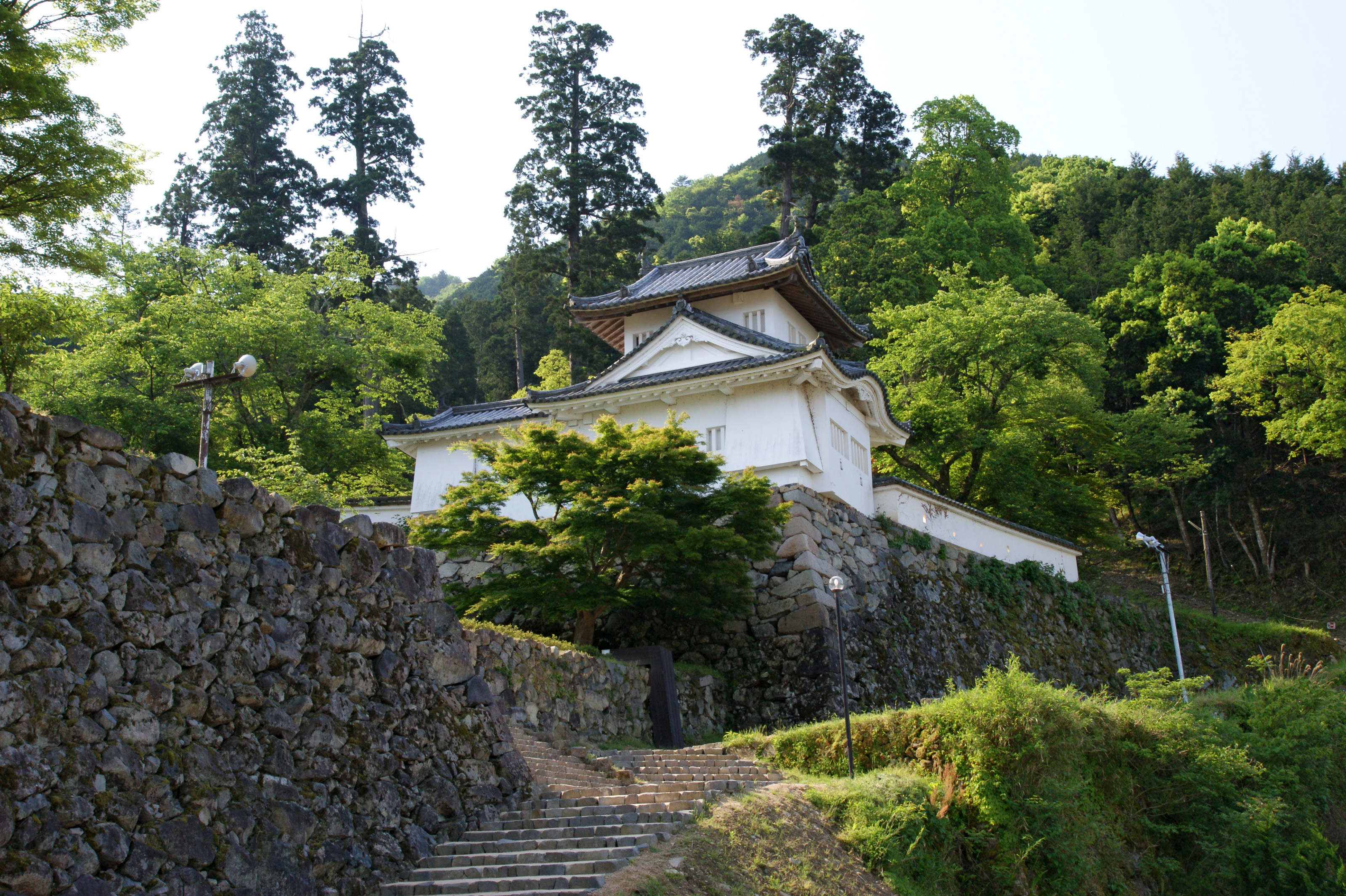 Izushi Castle in Toyooka, Hyogo prefecture, Japan